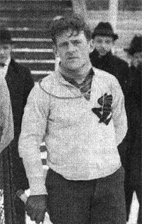 Einar Knatten Lundell, 19-01-1894 - 1976, Swedish icehockeyplayer